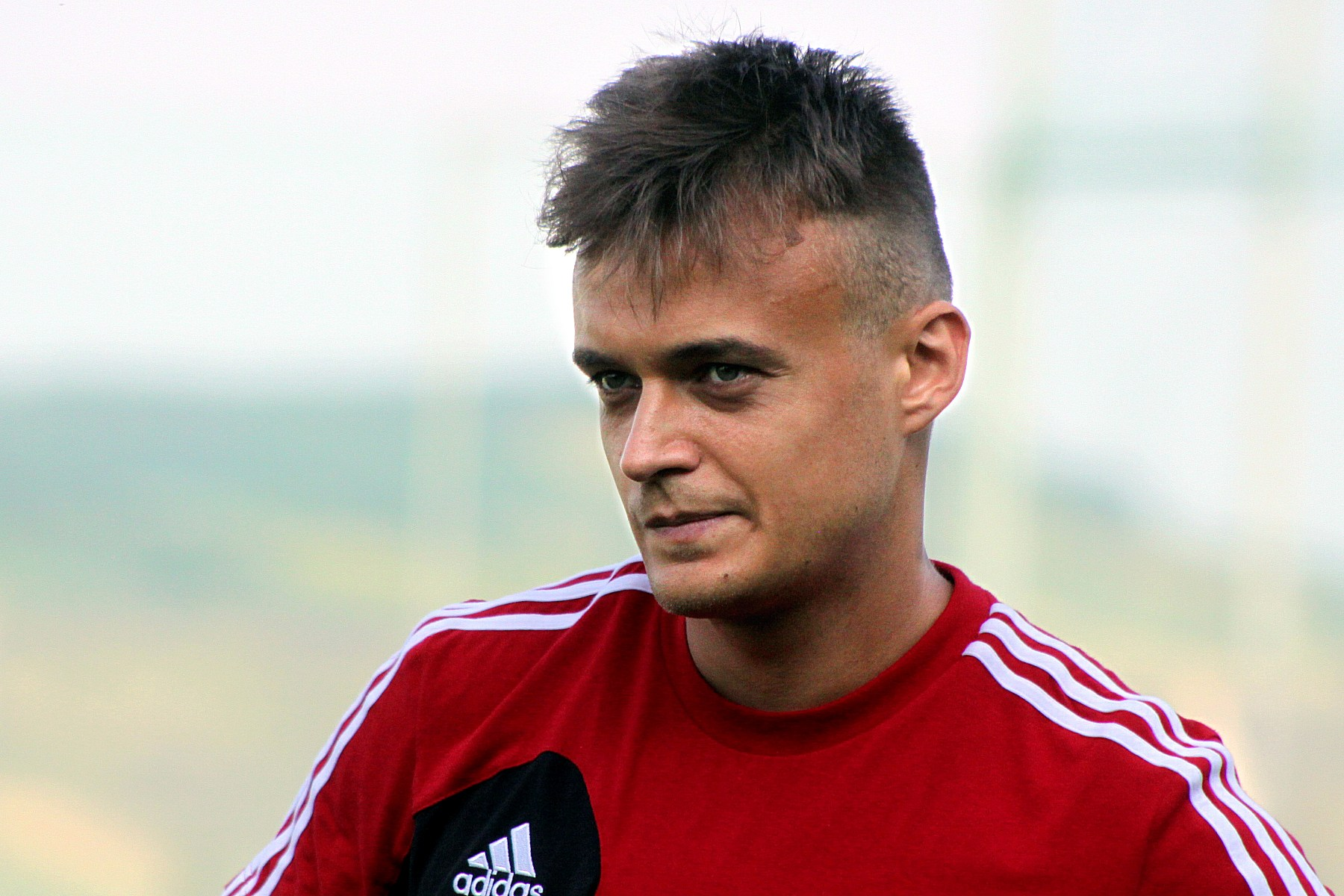 Friendly match SV Mattersburg vs FK Dukla Banská Bystrica (2:2) at 2013-06-21 in Mattersburg. – The photo shows Saša Savić (FK Dukla Banská Bystrica).